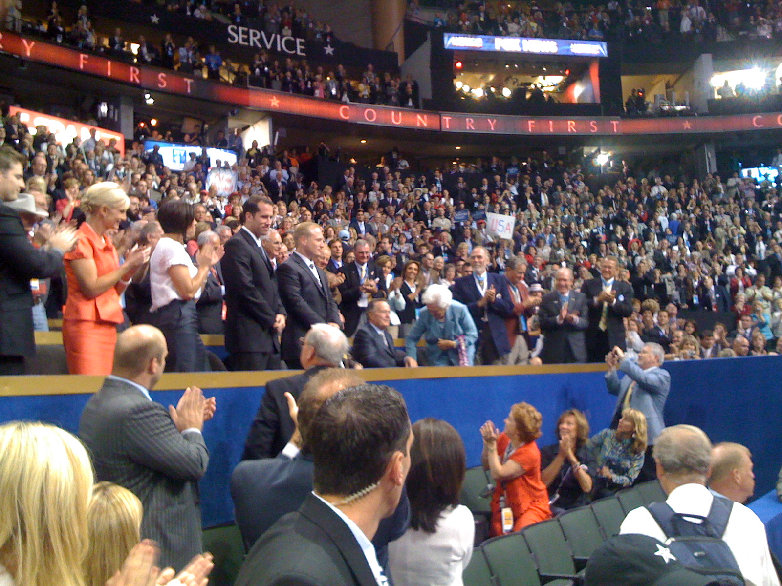 Members of the McCain and Bush families, just after the honoring George H. W. Bush at the w:2008 Republican National Convention in Saint Paul, Minnesota